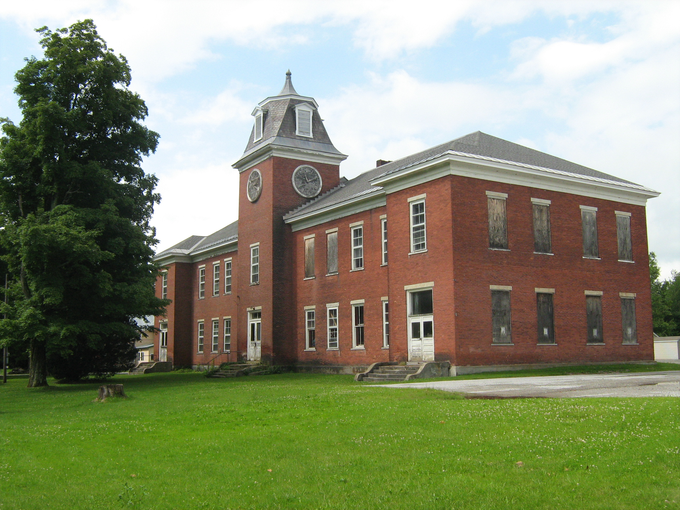 Established in 1879 by native son Peter Bent Brigham (who also named a hospital after himself in Boston, one of the three hospitals which became Brigham & Women's Hospital). The growing availability of public education eventually forced the school to close. Sketchy details suggest this was c1966. A movement to rehabilitate the building as town offices and elementary school classrooms has met with stiff opposition; the future of the building is uncertain.